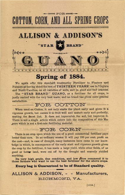 Allison & Addison advertisement for guano, 1884